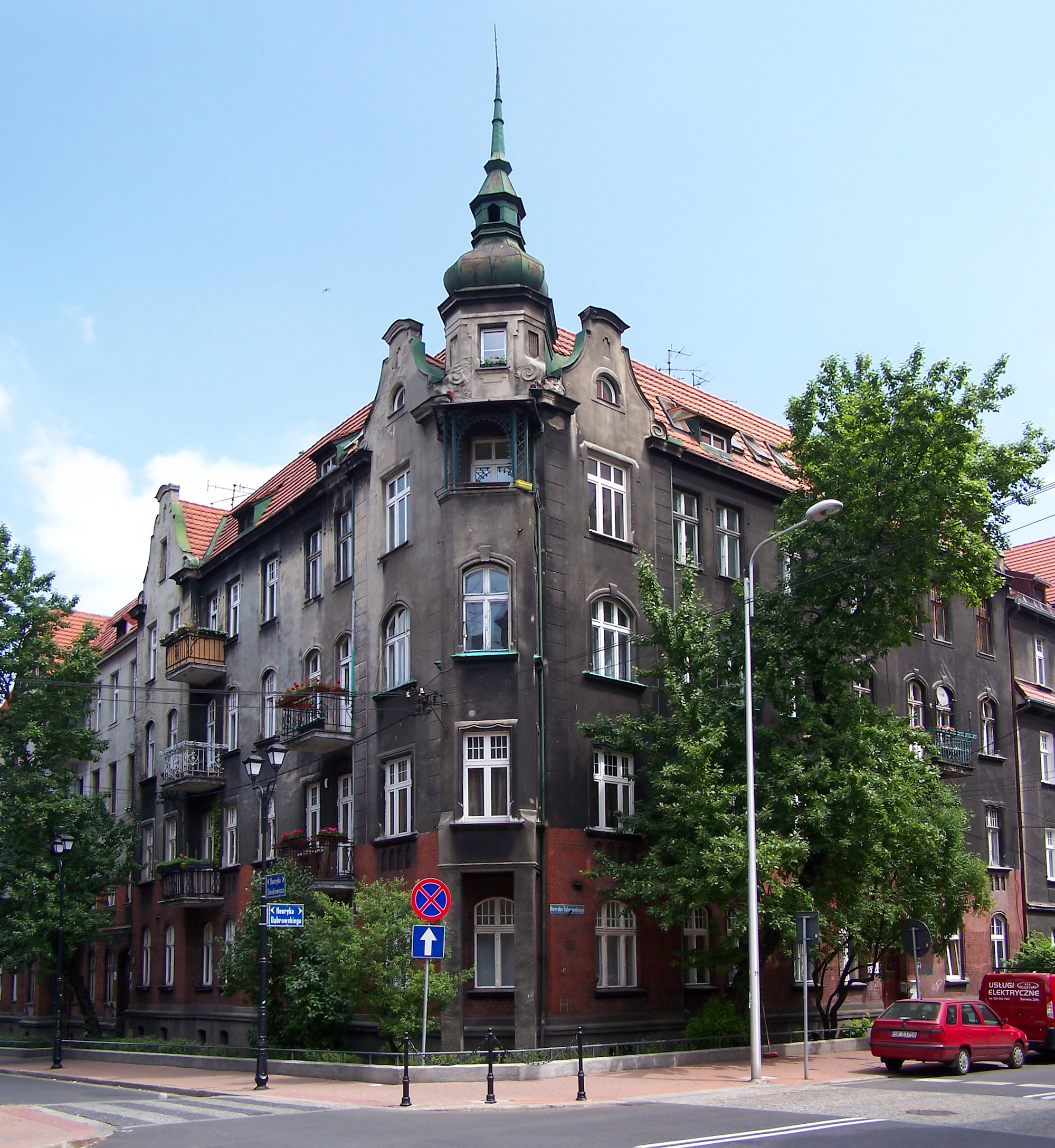 Corner building at the ul. Sienkiewicza/ul. Dąbrowskiego in Katowice.